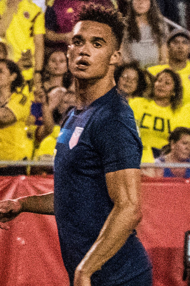 Matt Garrity Location : Raymond James Stadium, Tampa FL My contact : Instagram : djdouken Website